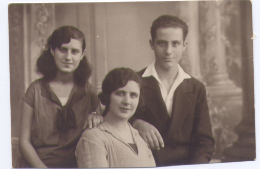 Mazal Mosseri (December 25, 1894, Hebron - June 15, 1981, Jerusalem) and her children